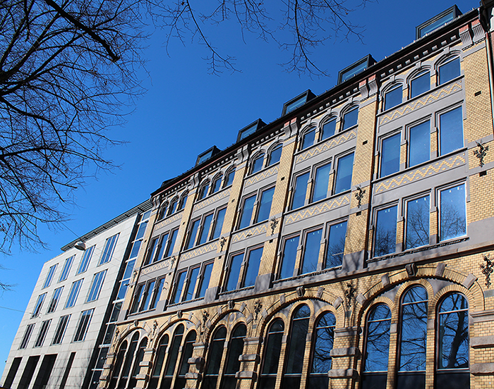 Fred. Olsens gate 1, Oslo